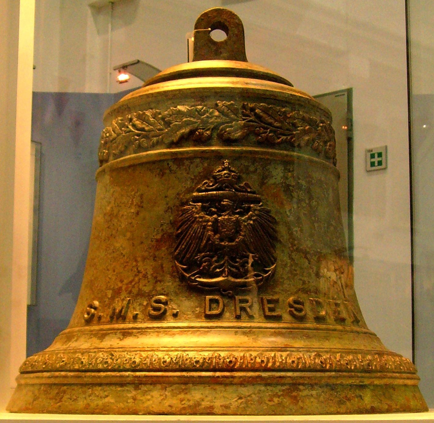 Ship bell of the light cruiser SMS Dresden